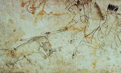 A miniature of a wolf hunt taking place in ancient Persia